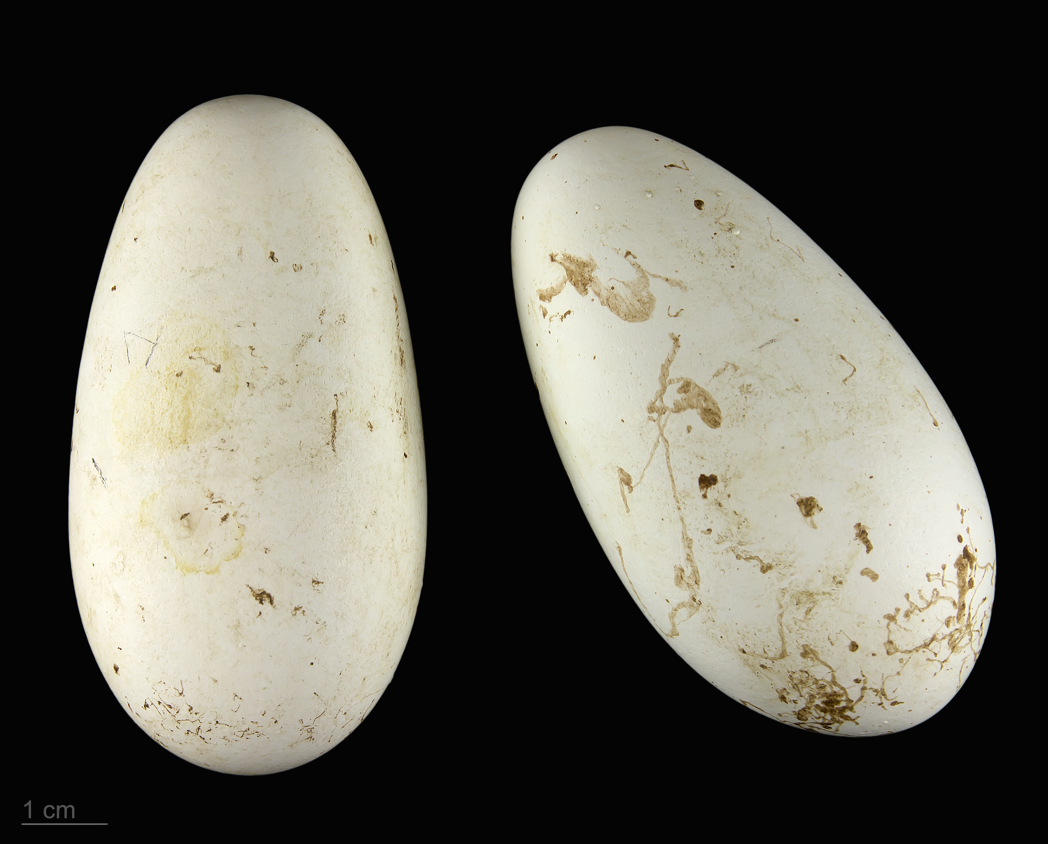 Eggs of African sacred ibis Two specimens of the same spawn ; collection of Jacques Perrin de Brichambaut.